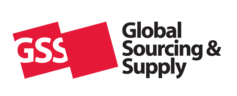 GSS Company Logo